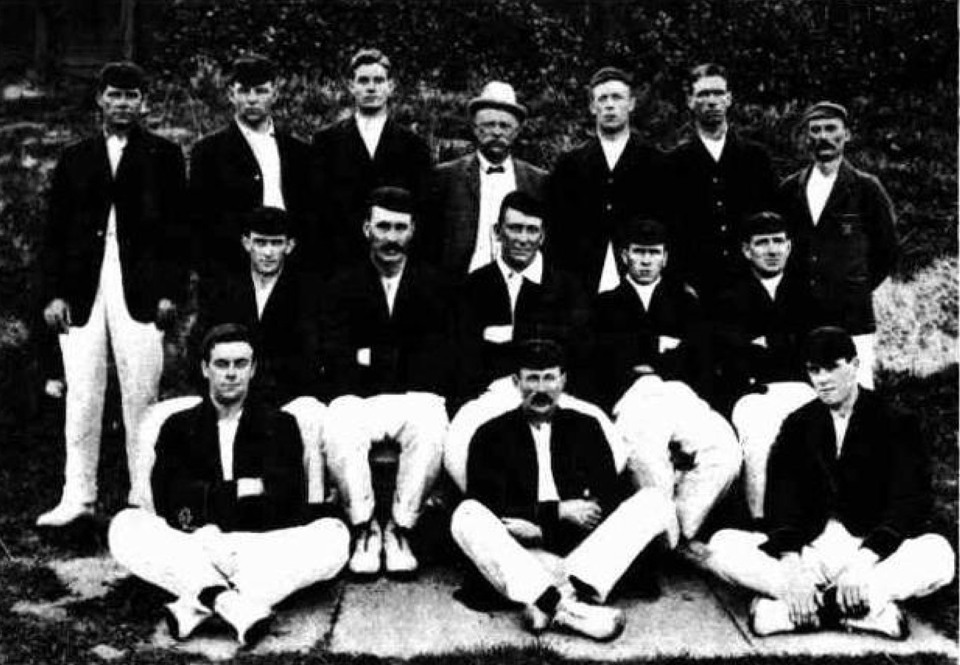 Photo of Australian cricket team to tour New Zealand in 1910. Back row: C. R. Gorry, N. Dodds, C. Kelleway, Major J. C. Waine, A. C. Facy. E. R. Mayne, R. Kelly (visitor). Middle row: C. E. Simpson, A. C. K. McKenzie, W. W. Armstrong, S. H. Emery, D. Smith. Front row: W. Bardsley, T. S. Warne, W. J. Whitty.